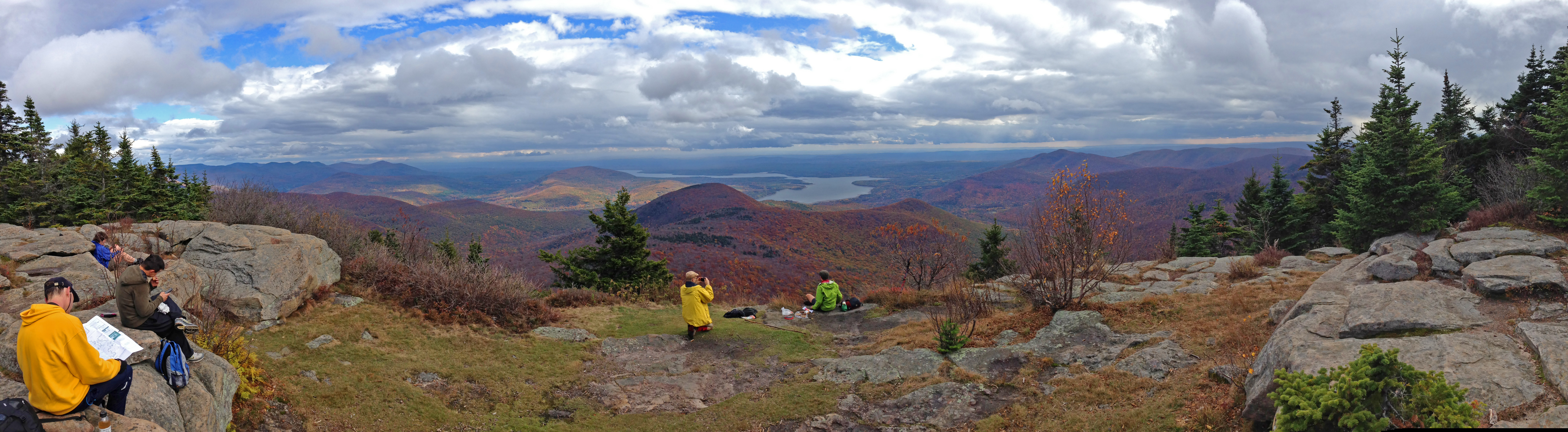 Panoramic view from summit of Wittenberg Mountain in the Catskill range of New York, with Ashokan Reservoir and other mountains of the area, such as Ashokan High Point, visible.